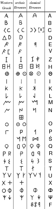 Based on [1] The link is dead and some information seems dubious. For example "𐌙" is currently transliterated as "χ" not as "Ψ".